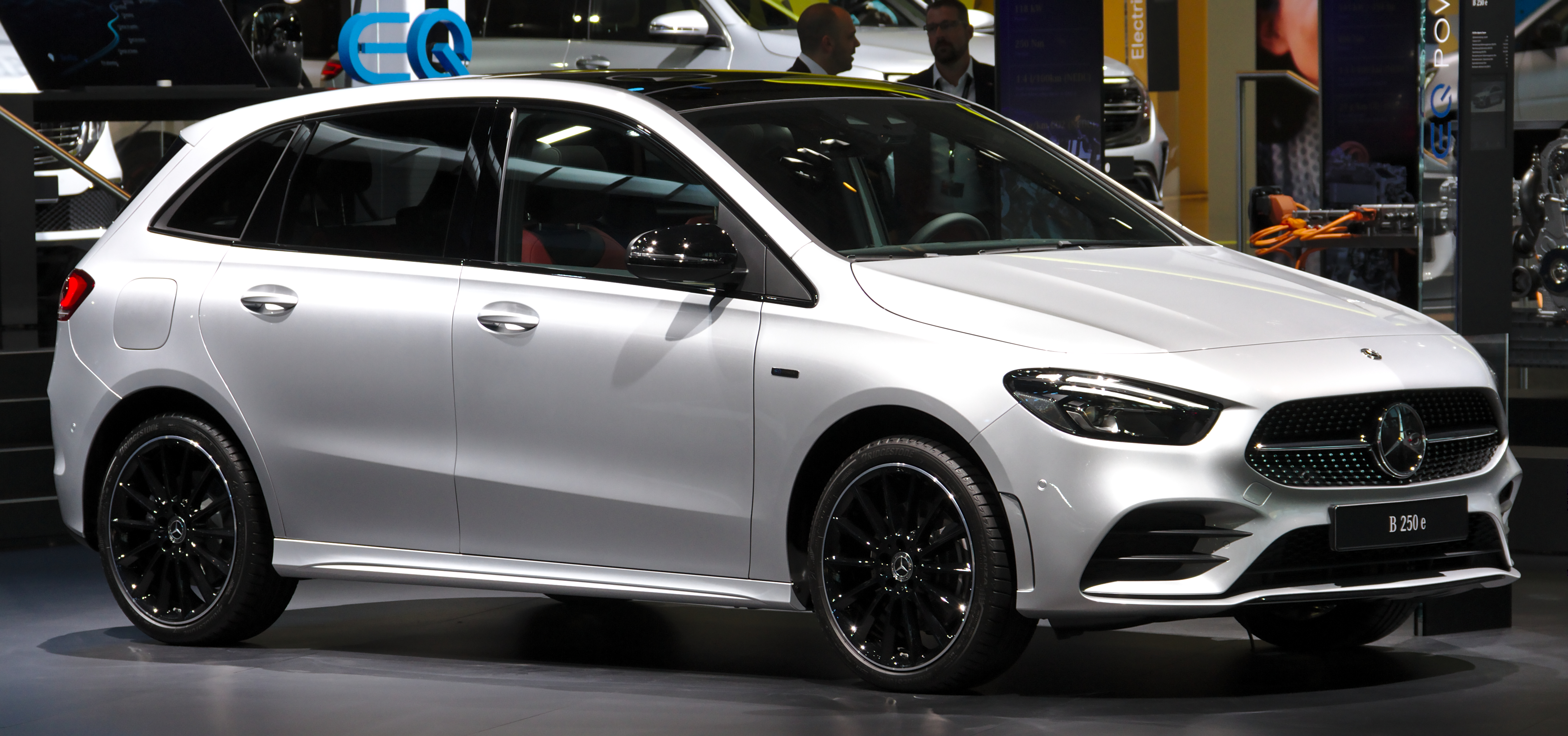 Mercedes-Benz_W247_250_e at IAA 2019